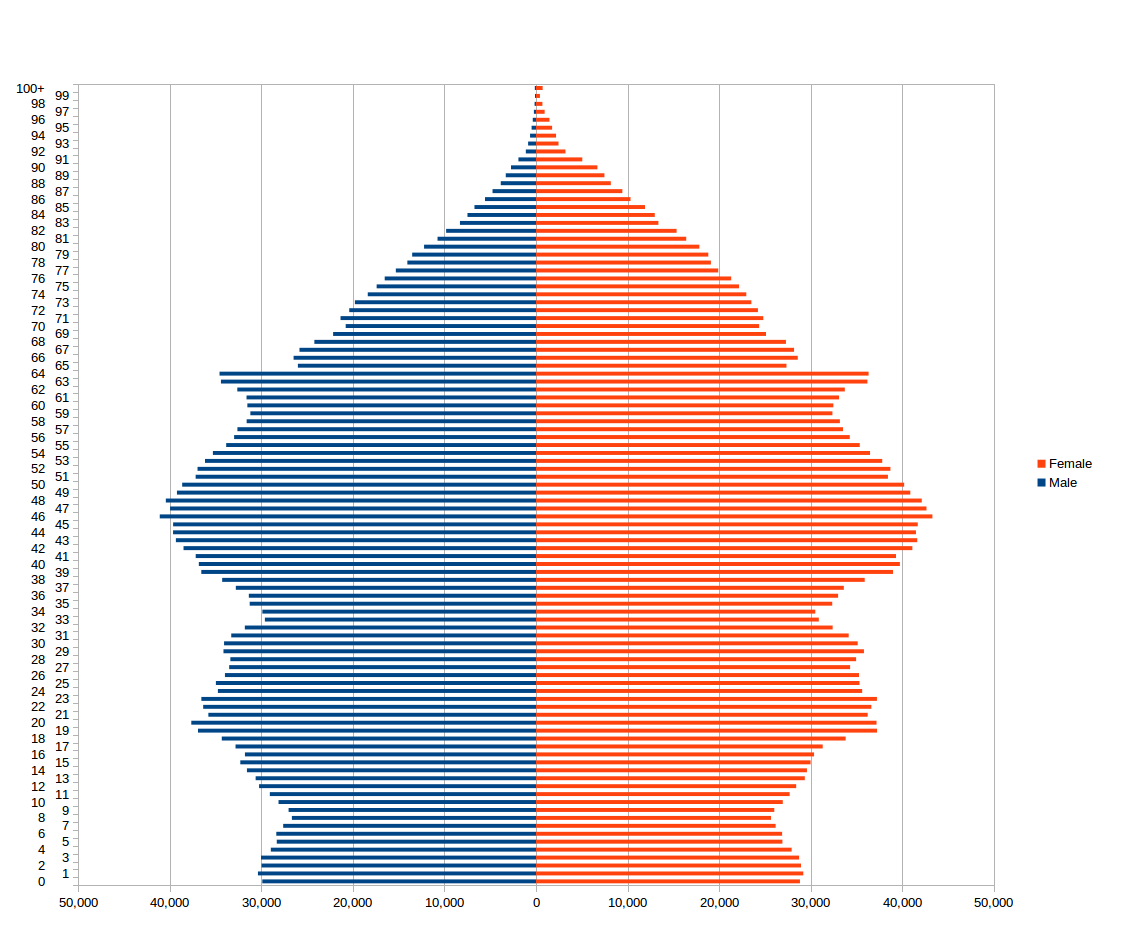 Population pyramid for Scotland as at the 2011 census.